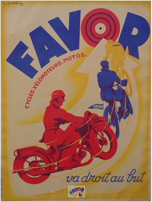 Favor Poster from around 1930